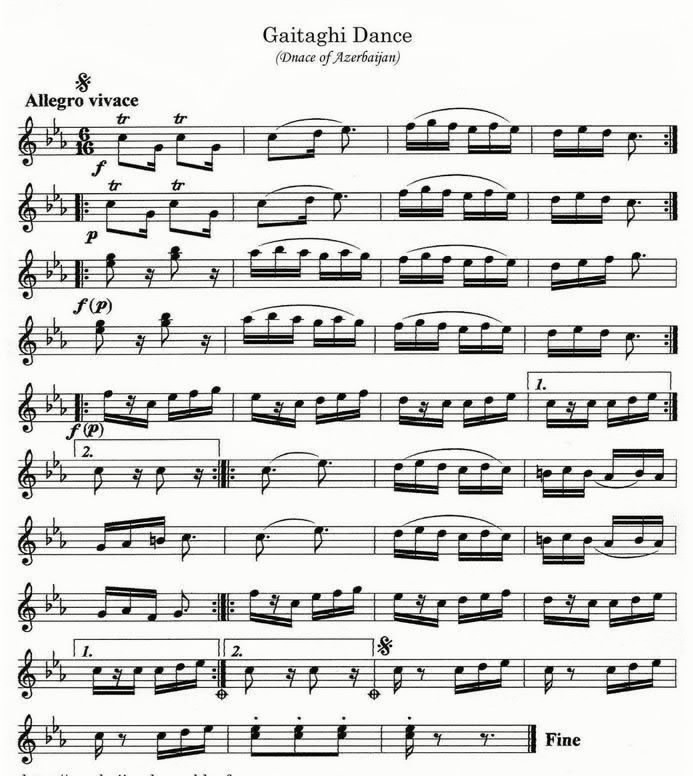 Azerbaijan national folk dance Gaitaghi